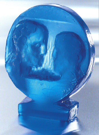 Ildsjelen - en hedersbevisning